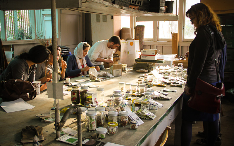 The Seed Library of Los Angeles (SLOLA)